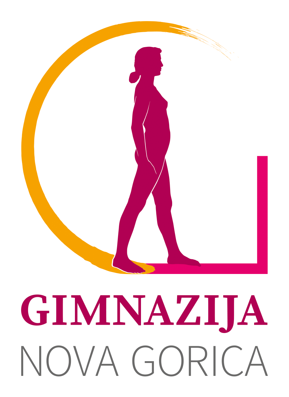 Gimnazija Nova Gorica logotype